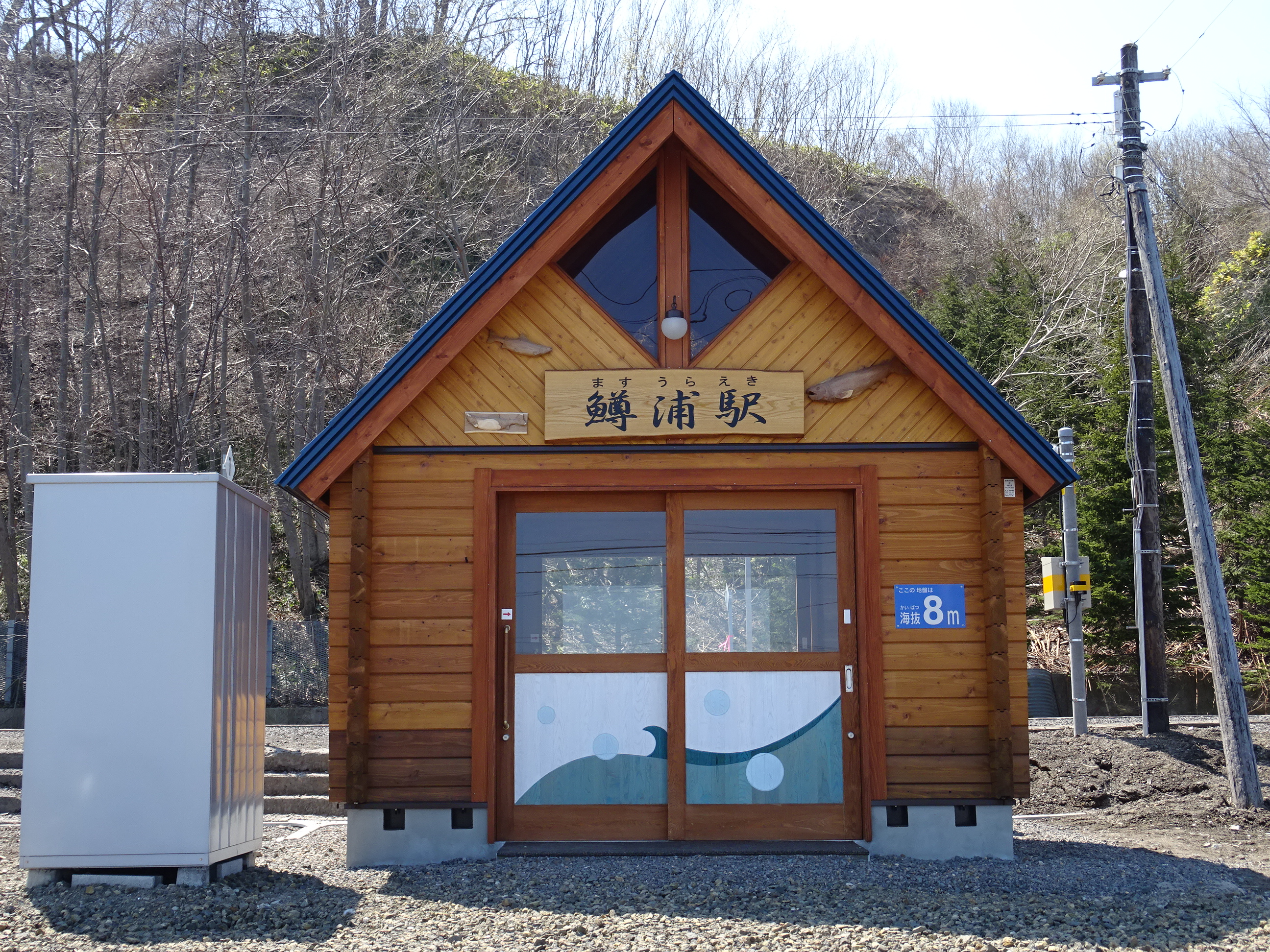 Masuura Station